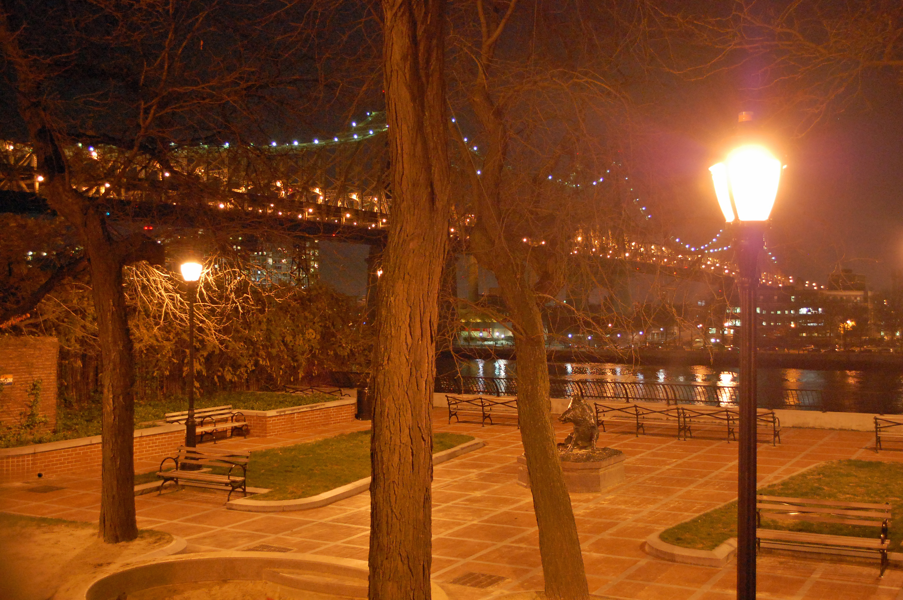 Night view of the Sutton Place Park at the eastern end of East 57th Street in New York City.